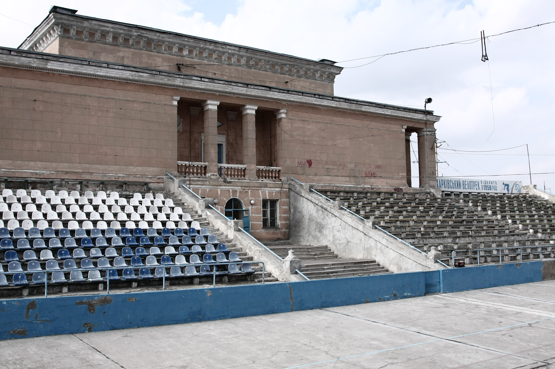 Kharkov velodrome main stand.